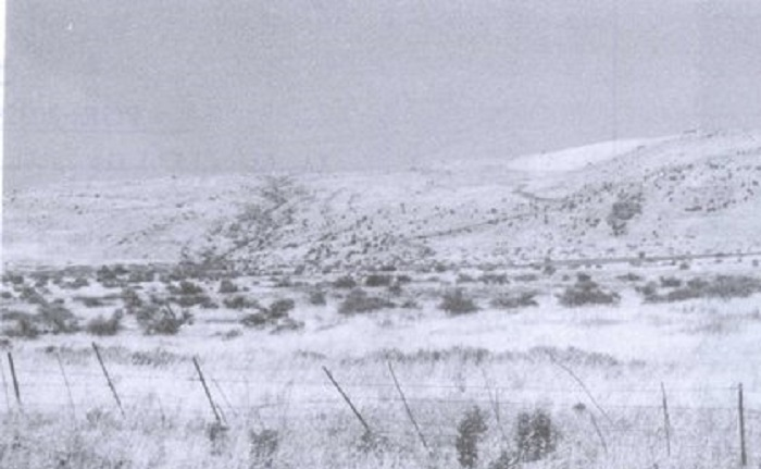 Al-Hamra' village